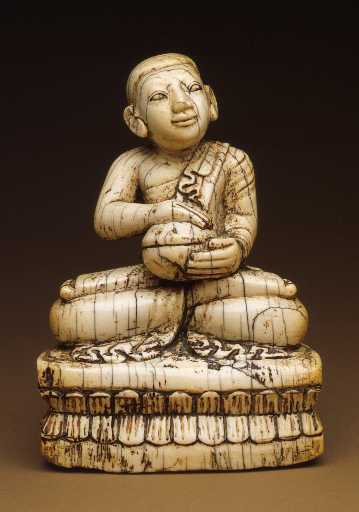 Burma (Myanmar), 19th century Sculpture Ivory Height: 6 1/2 in. (16.51 cm) Purchased with funds provided by Margot and Hans Ries, Dr. and Mrs. M. Sherwood, and The Felix and Helen Juda Foundation (M.82.132.2) South and Southeast Asian Art